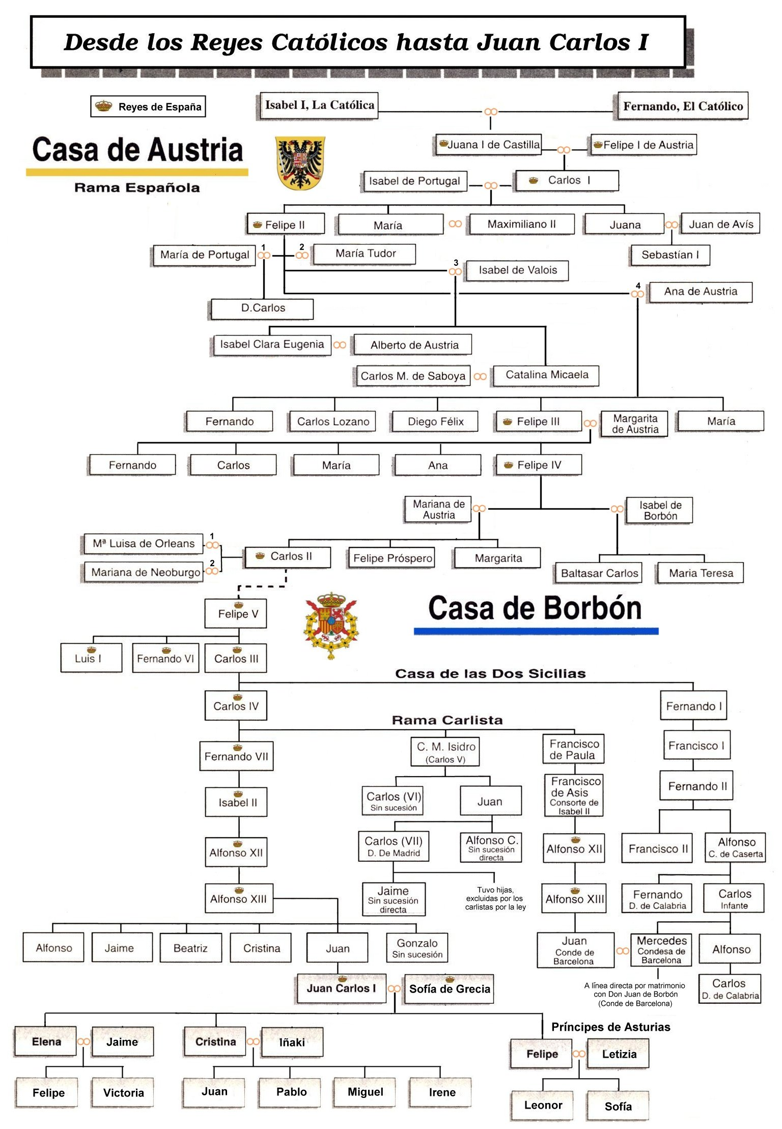 Genealogy of the kings of Spain since the Catholic Monarchs up Juan Carlos I